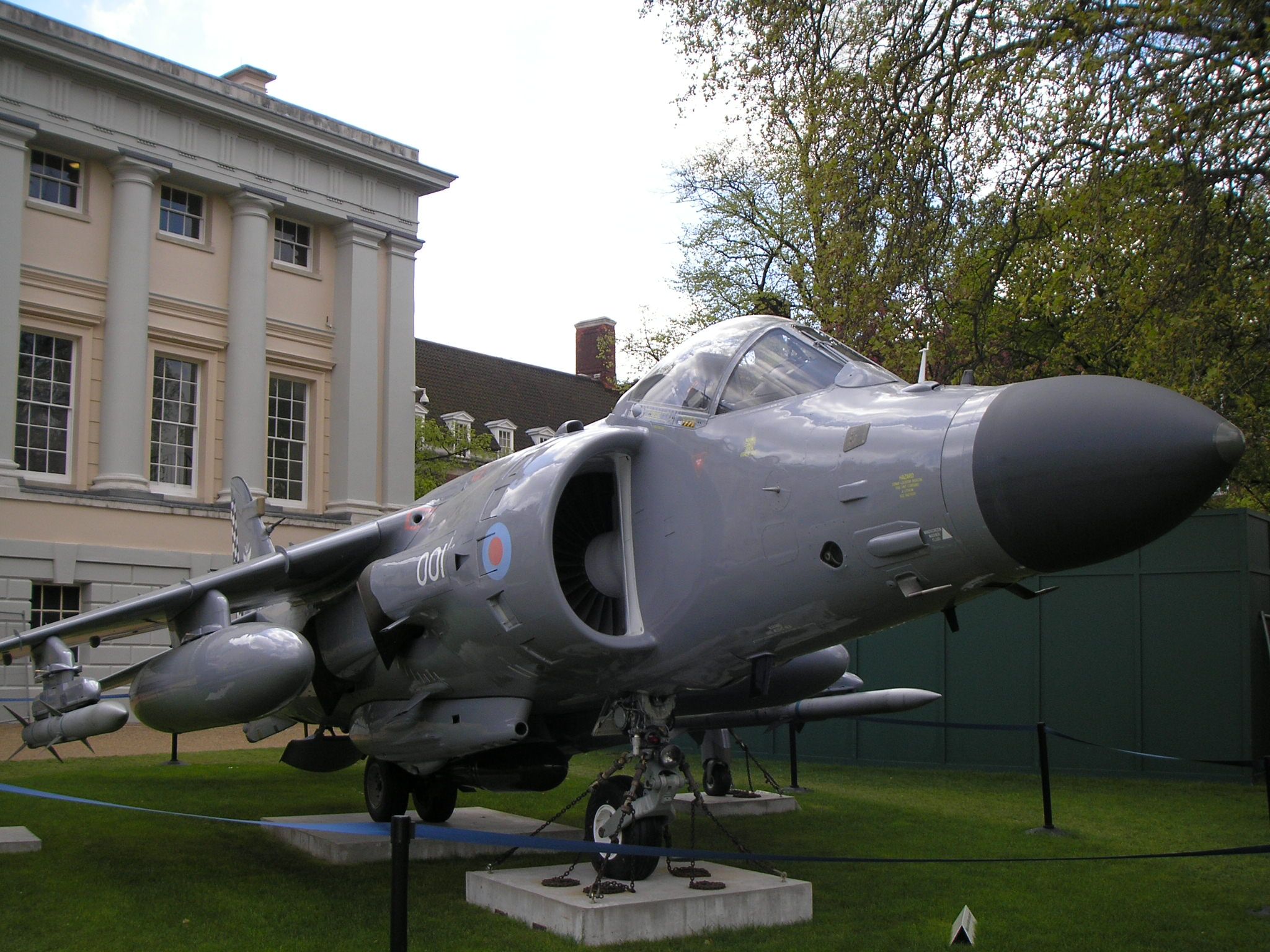 A recently retired FA2 Sea Harrier on display at the National Maritime Museum at Greenwich. Photo taken 3 May 2006.